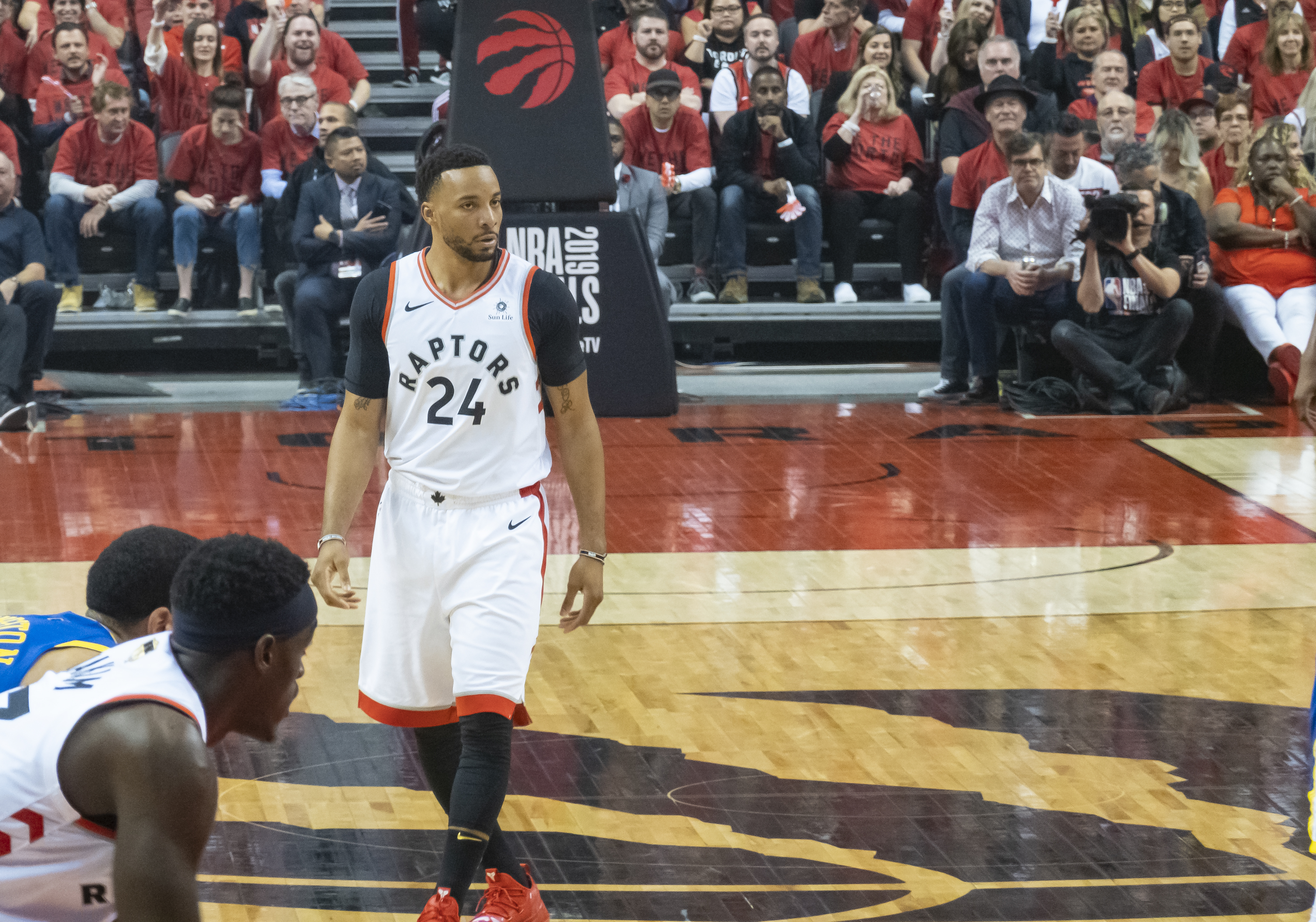 2019 nba finals game 2 toronto raptors golden state norman powell scotiabank arena